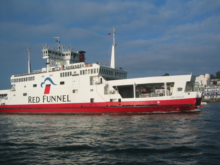 The Red Eagle, one of the three car ferries that travel from Southampton to East Cowes